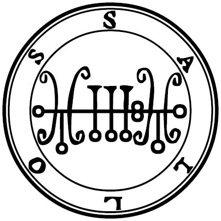 Sallos seal, THE BOOK OF THE GOETIA OF SOLOMON THE KING (1904)